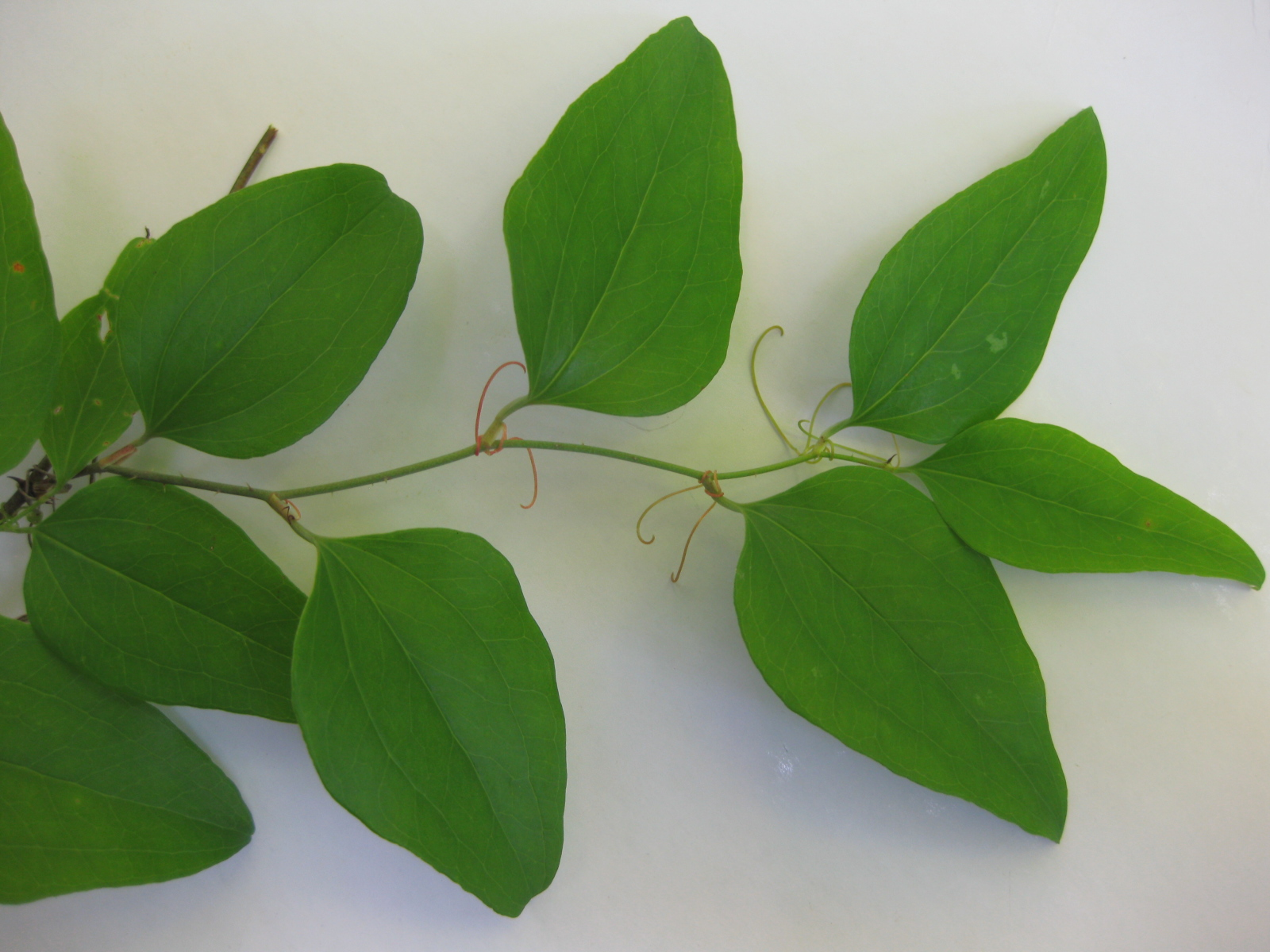 Smilax glauca